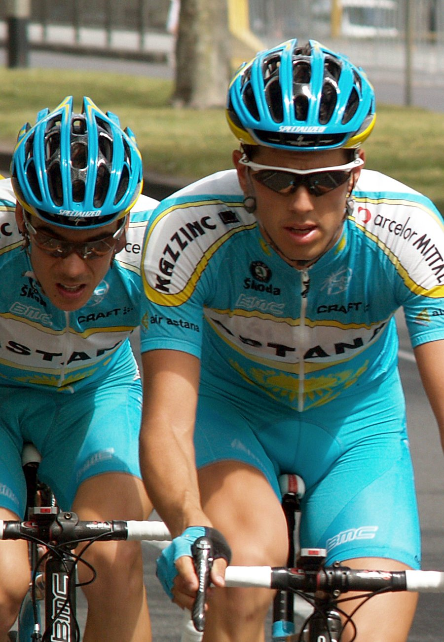 Swiss cyclist Steve Morabito (Team Astana) leads team-mate Julien Mazet during Stage 7 of the 2007 Herald Sun Tour, Melbourne, Australia.